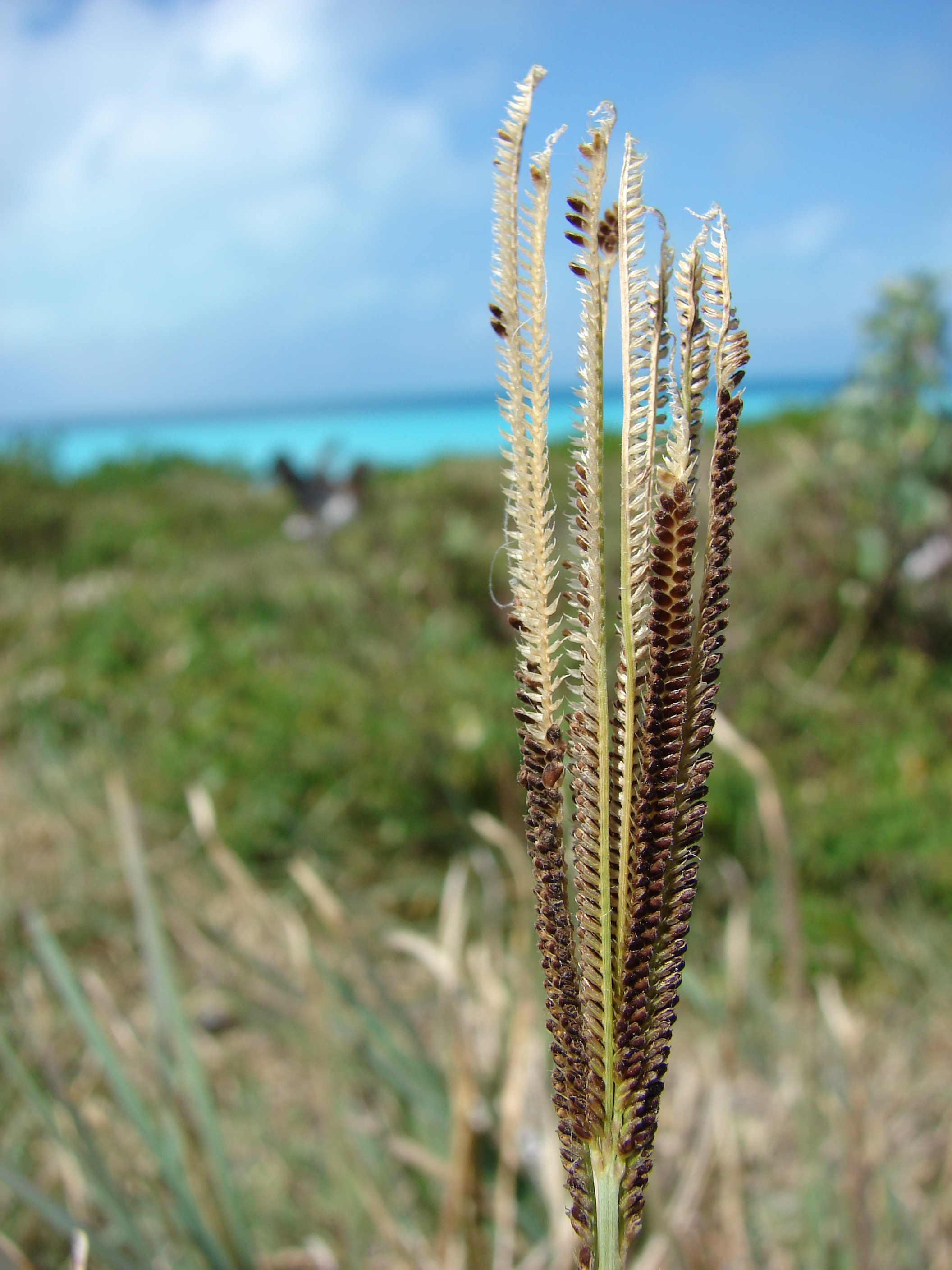 Eustachys petraea (seedhead). Location: Midway Atoll, Old Fuel Farm Sand Island